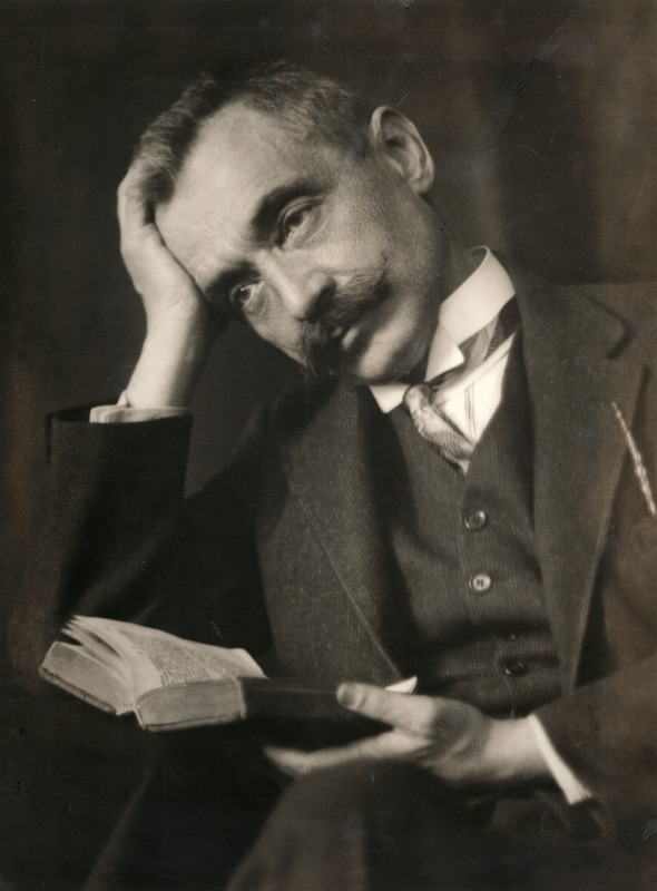 Aladár Schöpflin a Hungarian writer, translator, critic